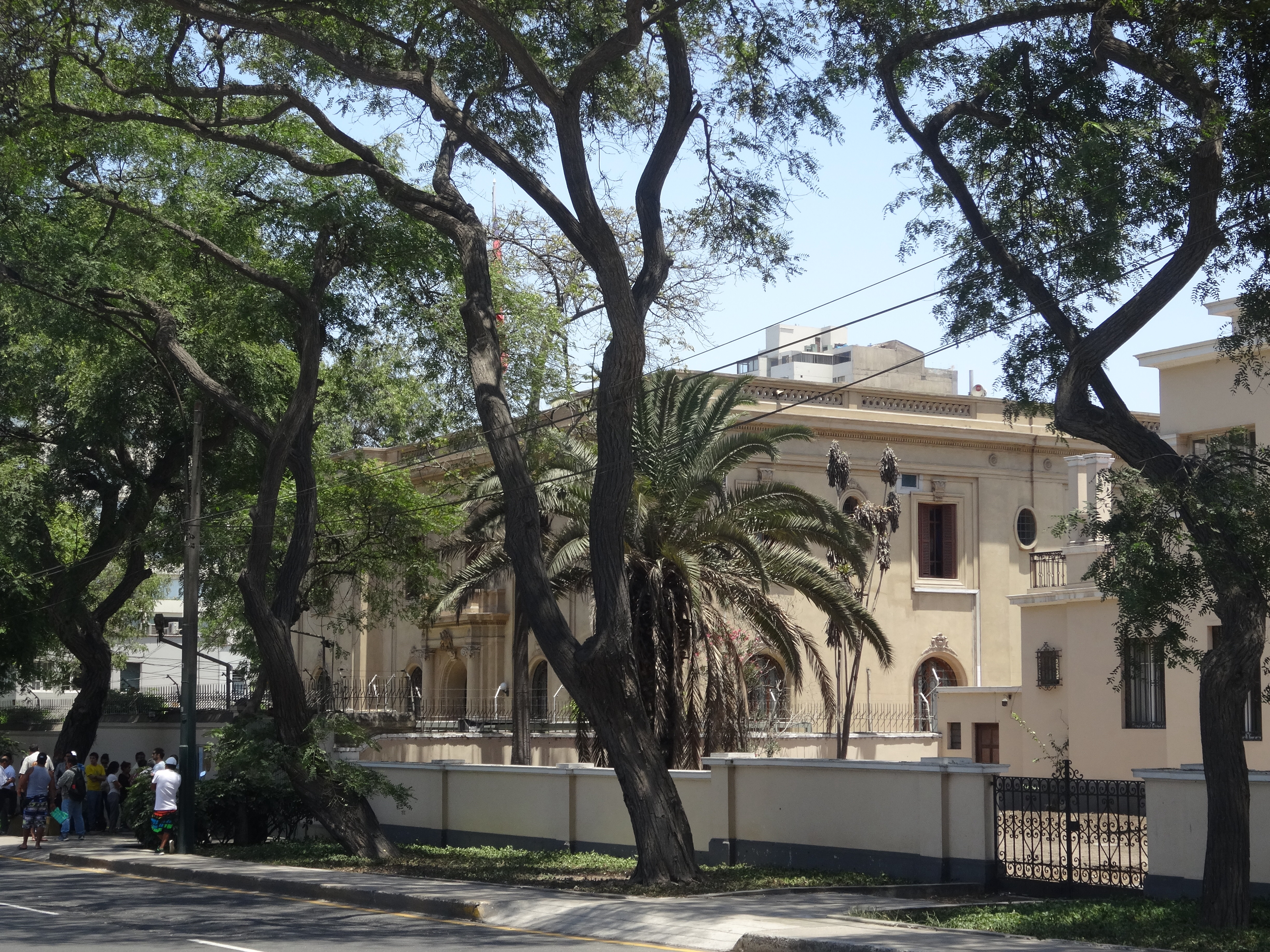 Embassy of Chile in Lima, Peru